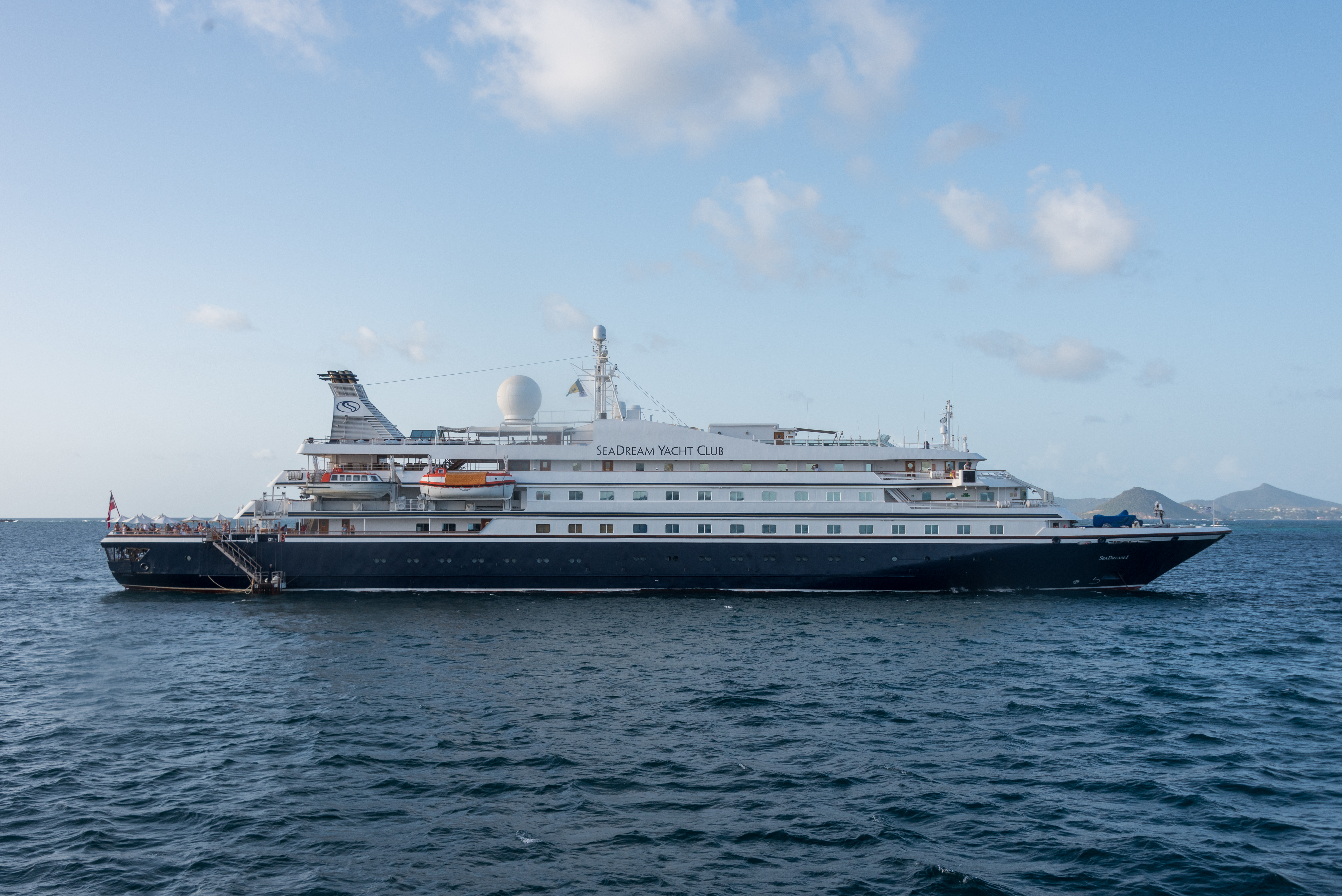 Cruise ship, SEA DREAM I - IMO 8203438, at Tobago Cays in the Caribbean Grenadines on April 6, 2017.